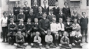 Cannon W J McClemans with his pupils outside Christ Church Claremont 1914